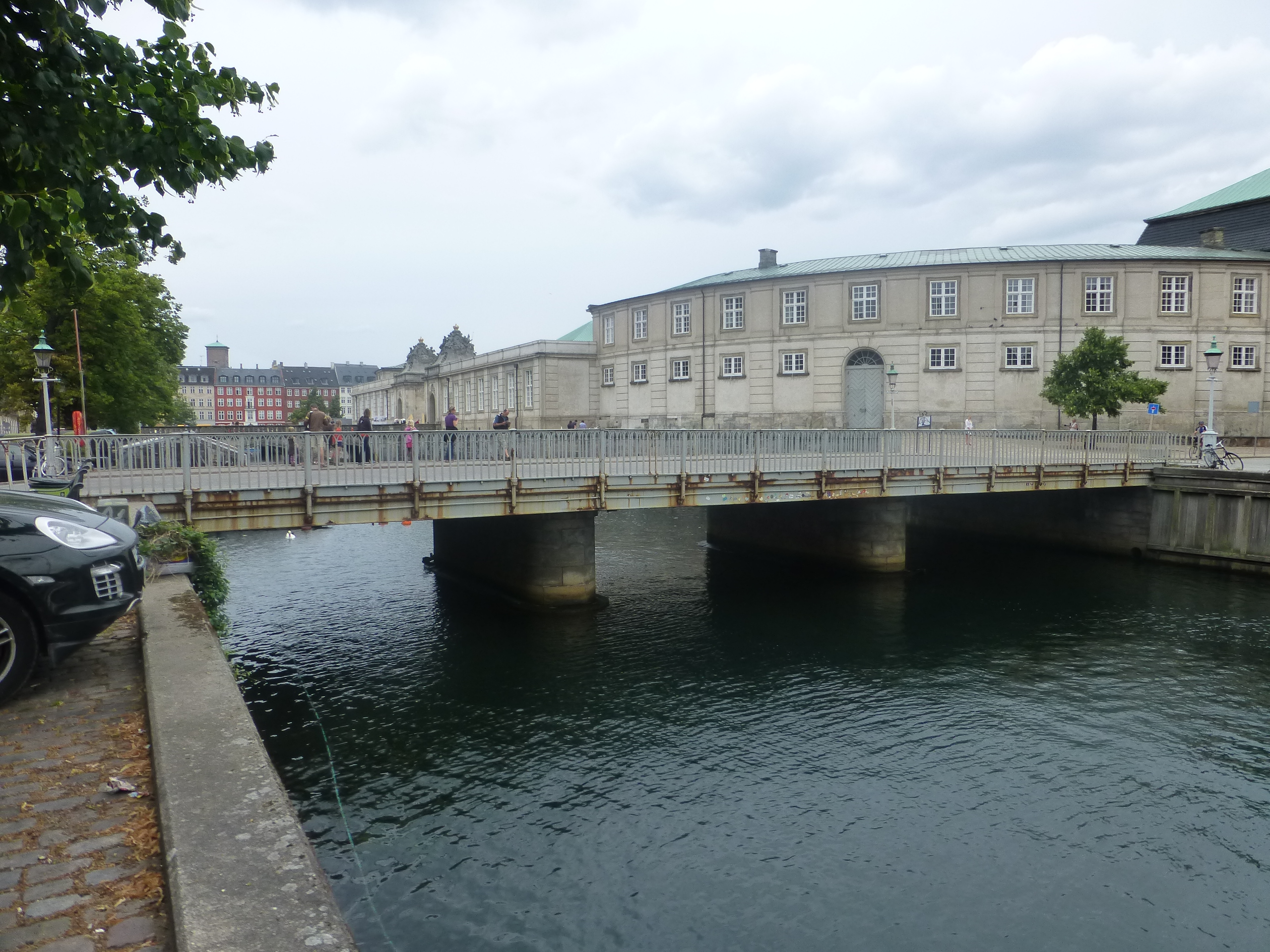 The bridge Prinsens Bro between Sjælland and Slotsholmen in Copenhagen.